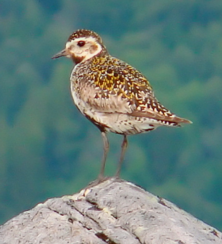 A wary Eurasian Golden Plover photographed in Velfjord, Brønnøy, Northern Norway.